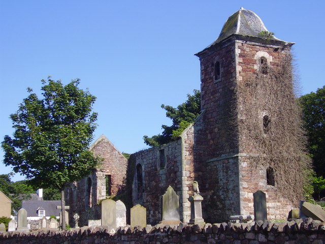 Ancient Church, North Berwick, East Lothian. The Auld Kirk contains the graves of many famous people. John Blackadder, the Covenanting minister, died on the Bass Rock and is buried here.